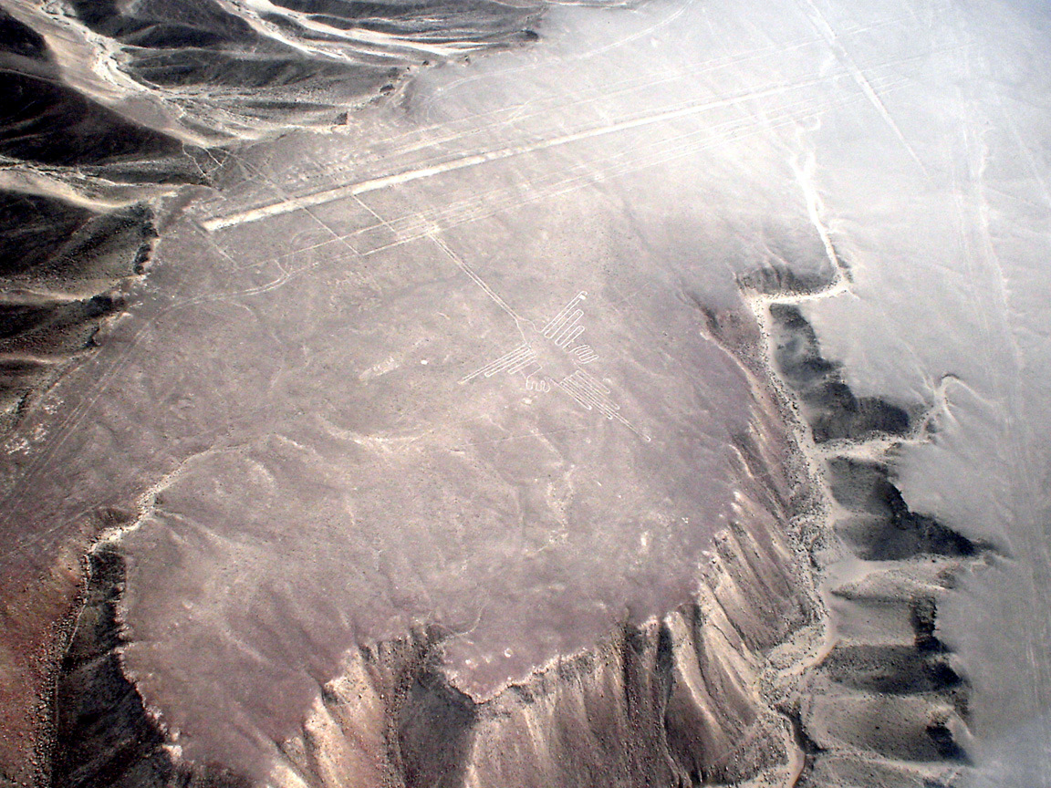 Nazca lines in Peru with high contrast image